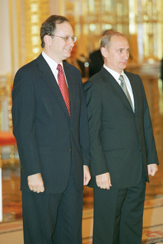 THE KREMLIN, MOSCOW. Vladimir Putin with Alexander Russell Vershbow, the ambassador of the United States of America to the Russian Federation